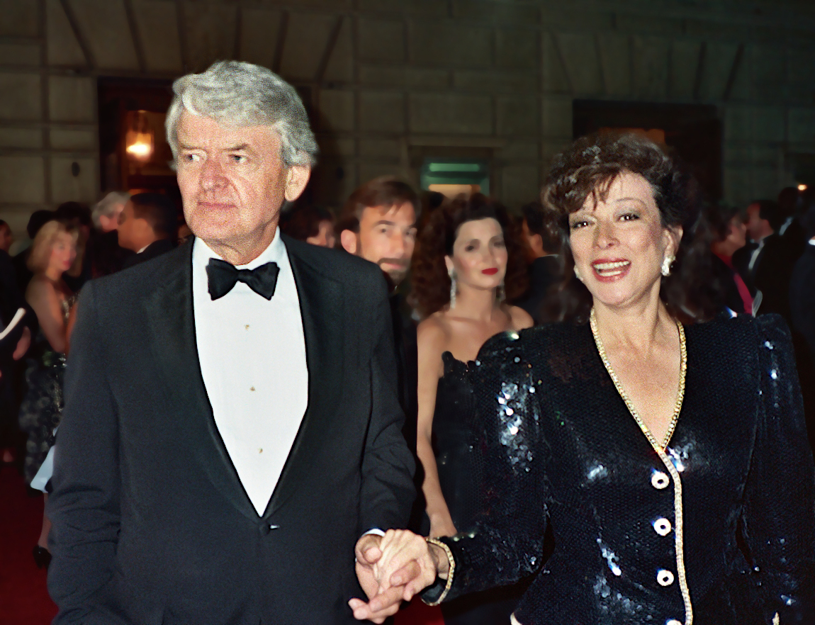 Photo taken at the 41st Emmy Awards 9/17/89 - Permission granted to copy, publish or post but please credit "photo by Alan Light" if you can